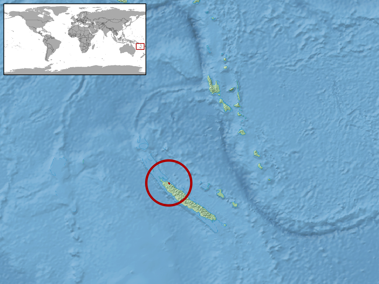 geographic distribution of Caledoniscincus terma